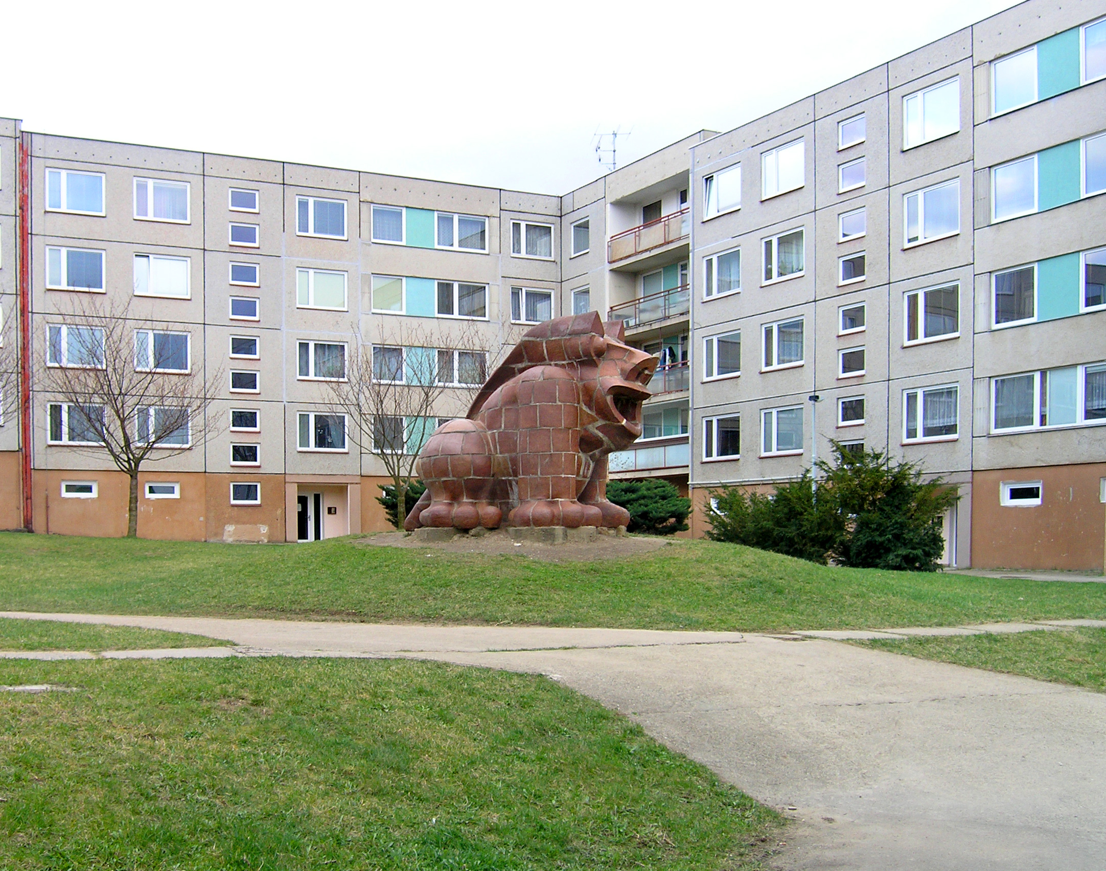 A sculpture Oskar by Jaroslav Róna by Hrdličkova street in Chodov, Prague